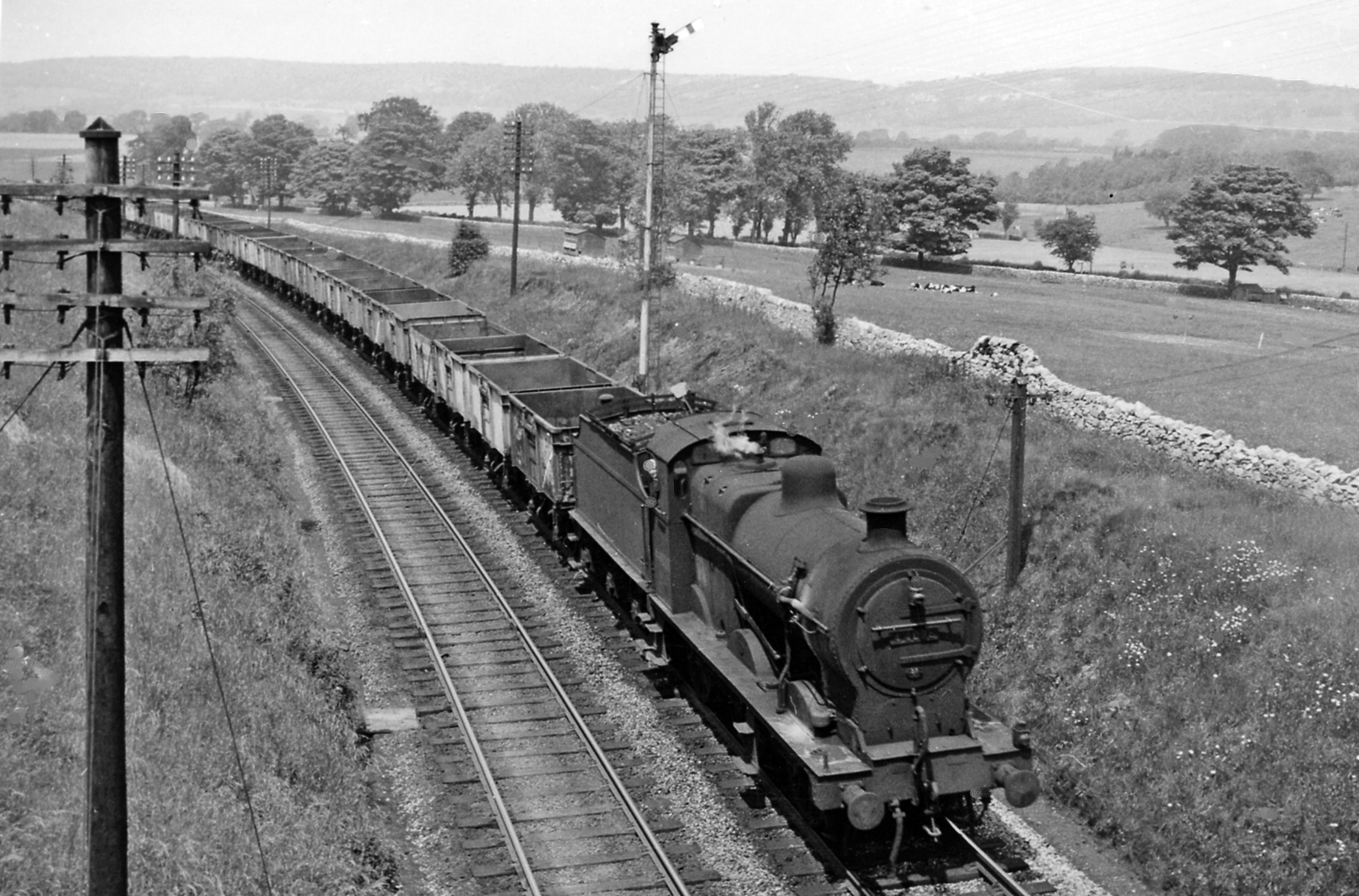 Up empties approaching (remains of) Hassop station. View northward, towards Millers Dale, Buxton and Manchester: ex-Midland Derby - Manchester 'Peak' line. The Class F is descending the long drag down to Rowsley, headed by LMS Fowler 4F 0-6-0 No. 44038 (built 1925, withdrawn 4/64). In the distance are the moors above Hathersage on the border with Yorkshire.